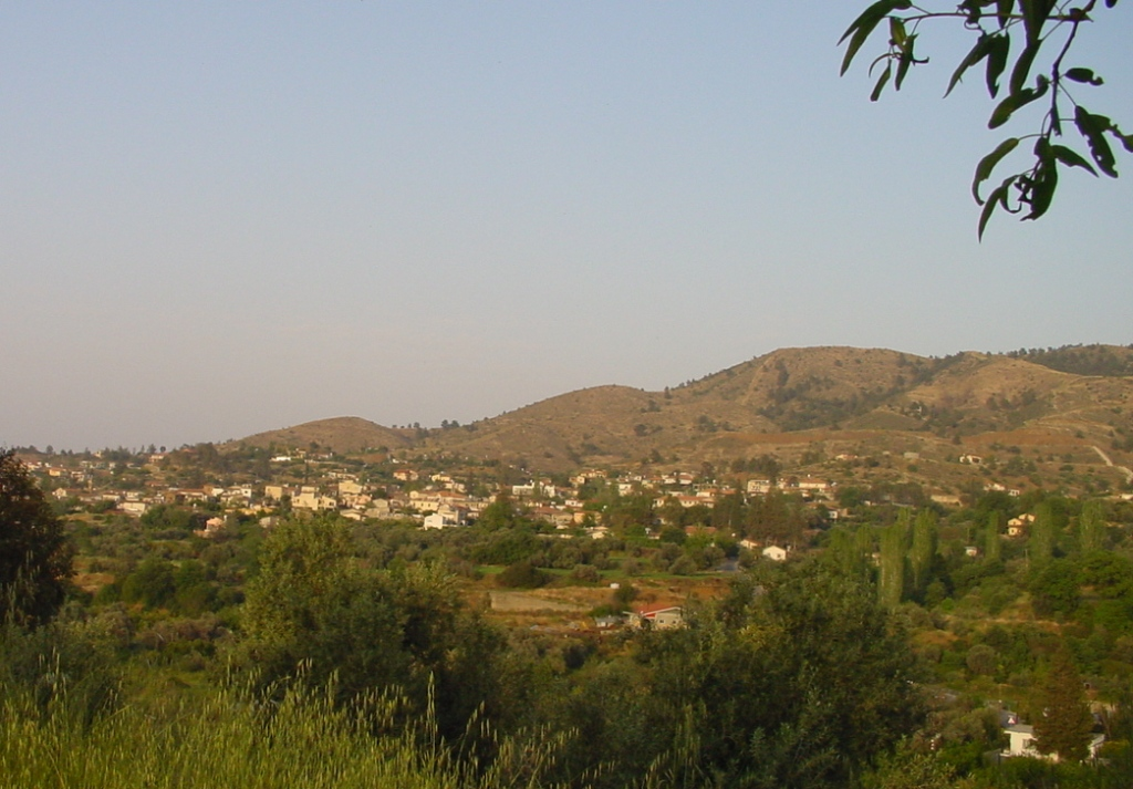 The village of Evrychou as seen from the hills near Korakou